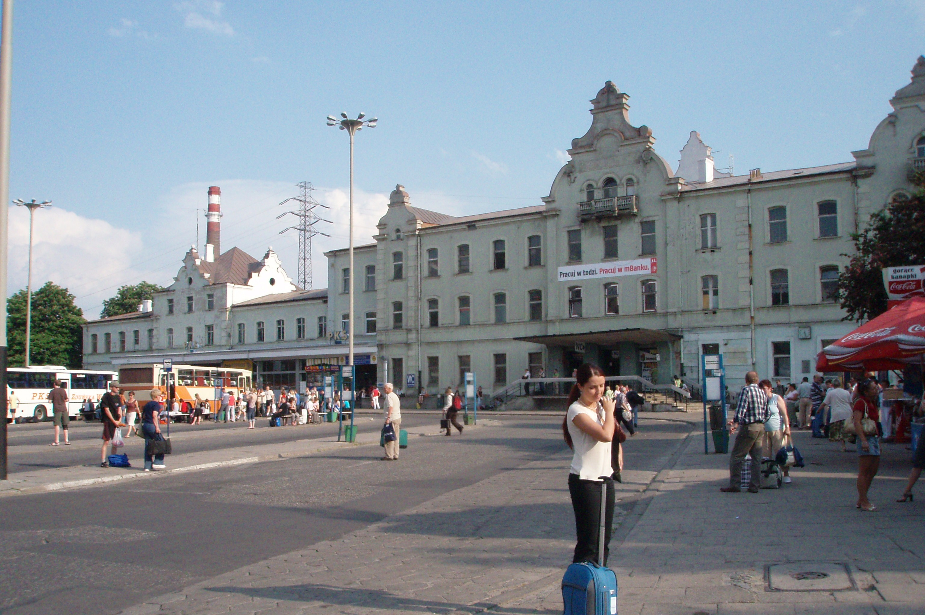 At the Łódź Fabryczna station (bus station section).